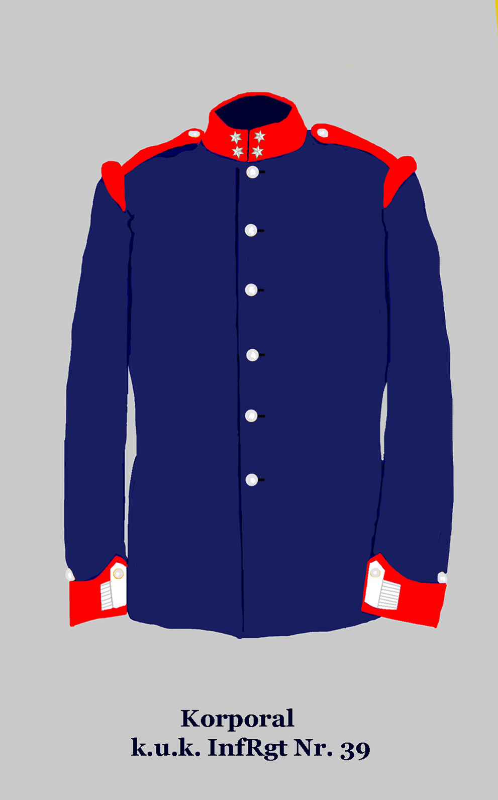 Corporal of the k.u.k. hungarian 39th Infantry Regiment (Collar scarlet, buttons white)